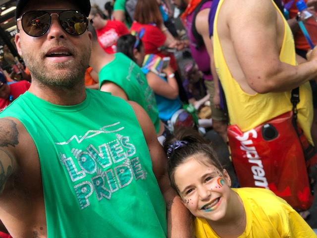 it represents freedom, love, family & acceptanceLocation: United States - New York CityEvent type: world PrideDate or year: 2019